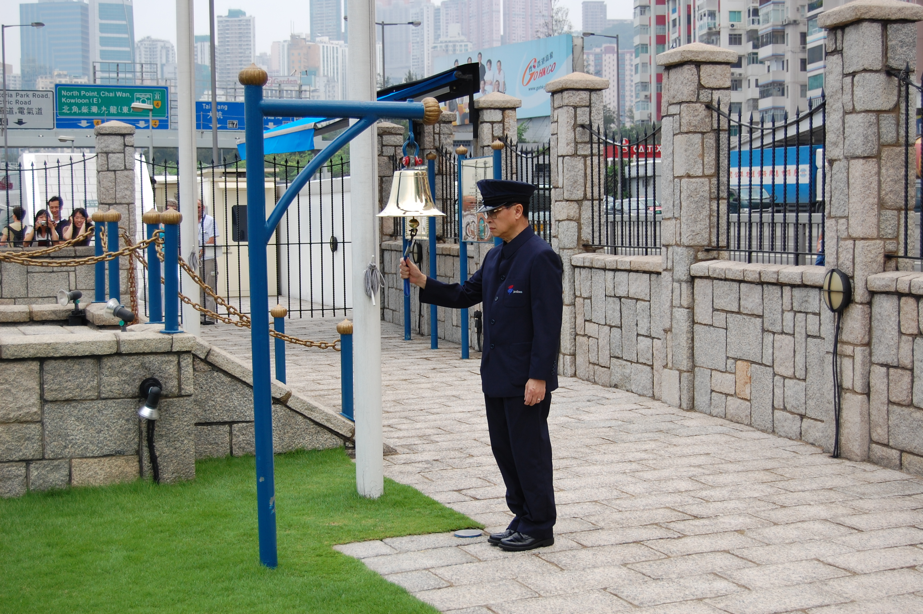 After Firing the Noonday Gun